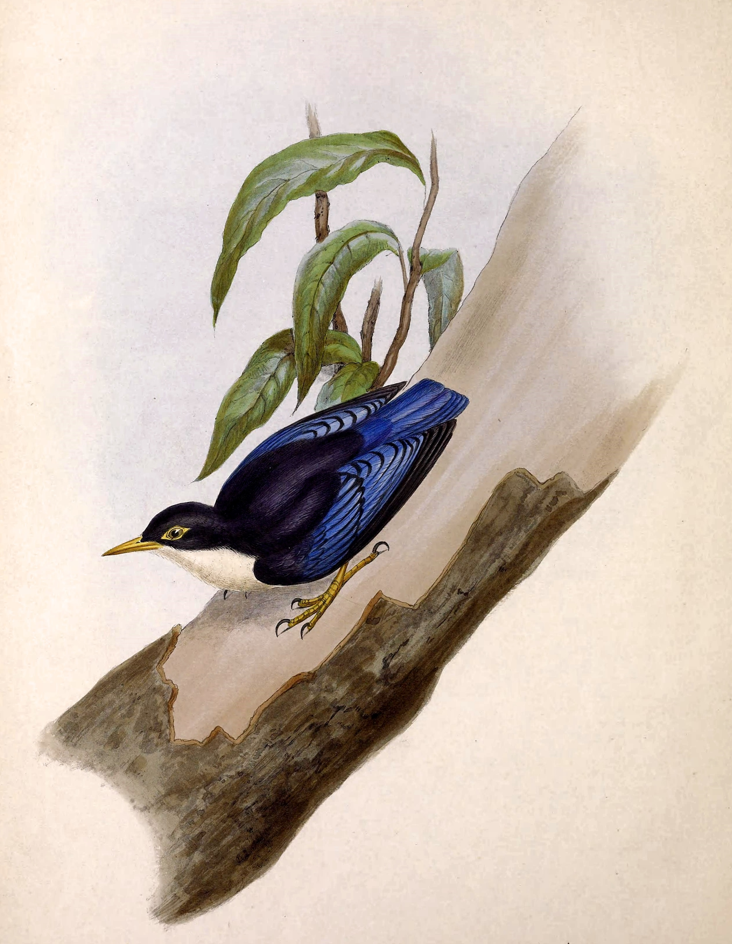 « Sitta flavipes Swainson, 1838 » = Sitta azurea nigriventer (subsbecies of Blue Nuthatch)